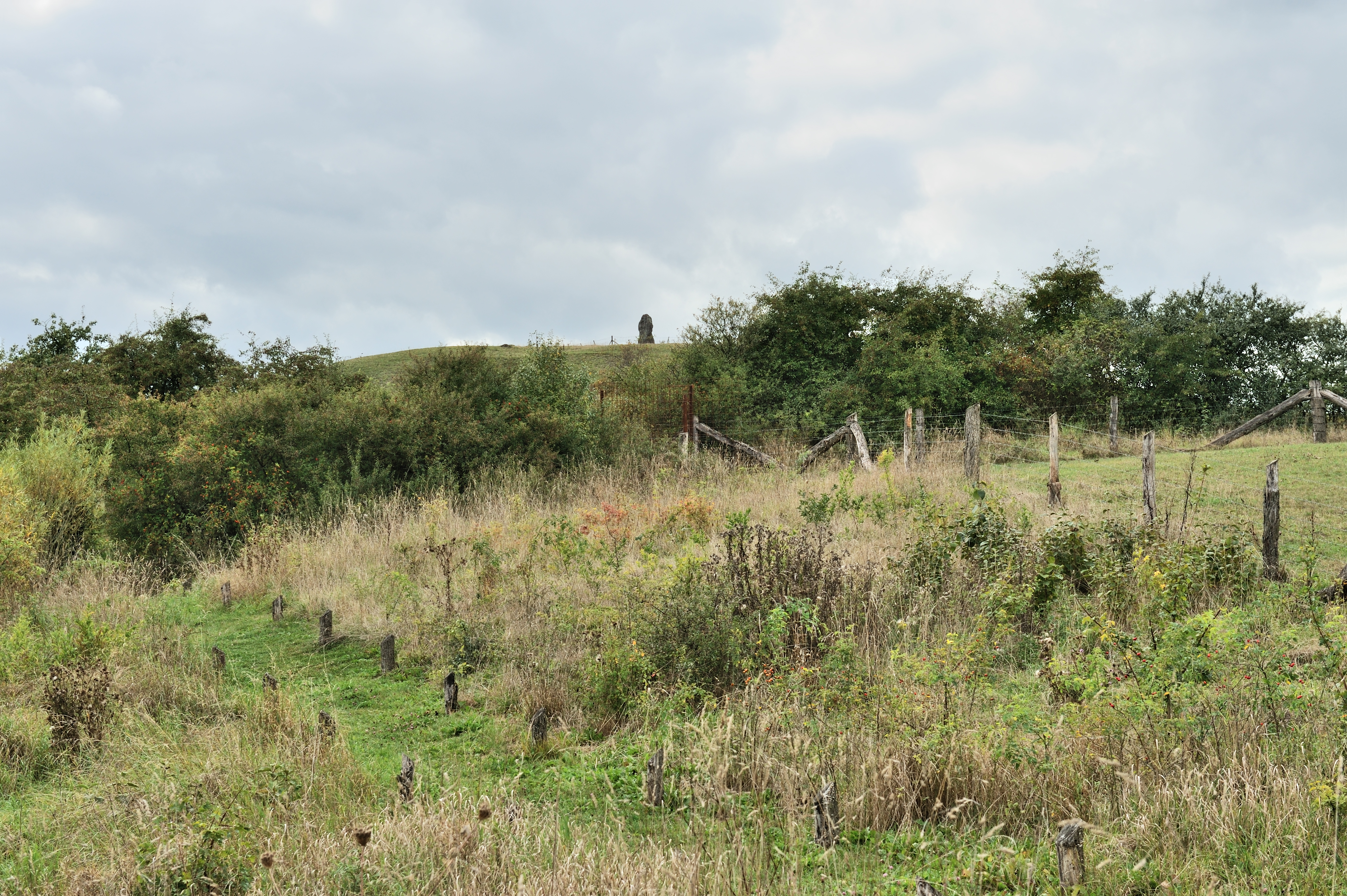 Menhir near Reckange (Mersch, Luxembourg) seen from Eenelter Chapel